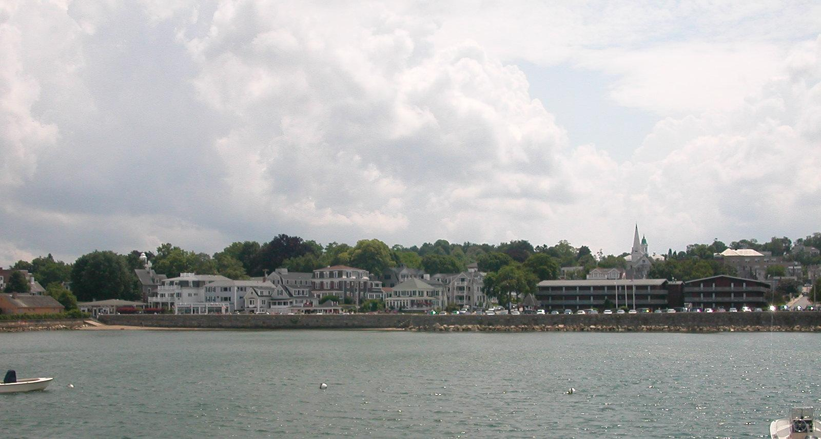 Cityscape of Plymouth, MA